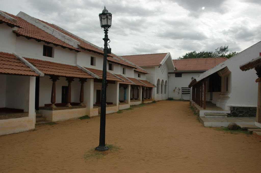 Reconstructed agraharam found at Dakshina Chitra, Chennai. Photo taken by me with D70s. Credit is appreciated though not mandatory.